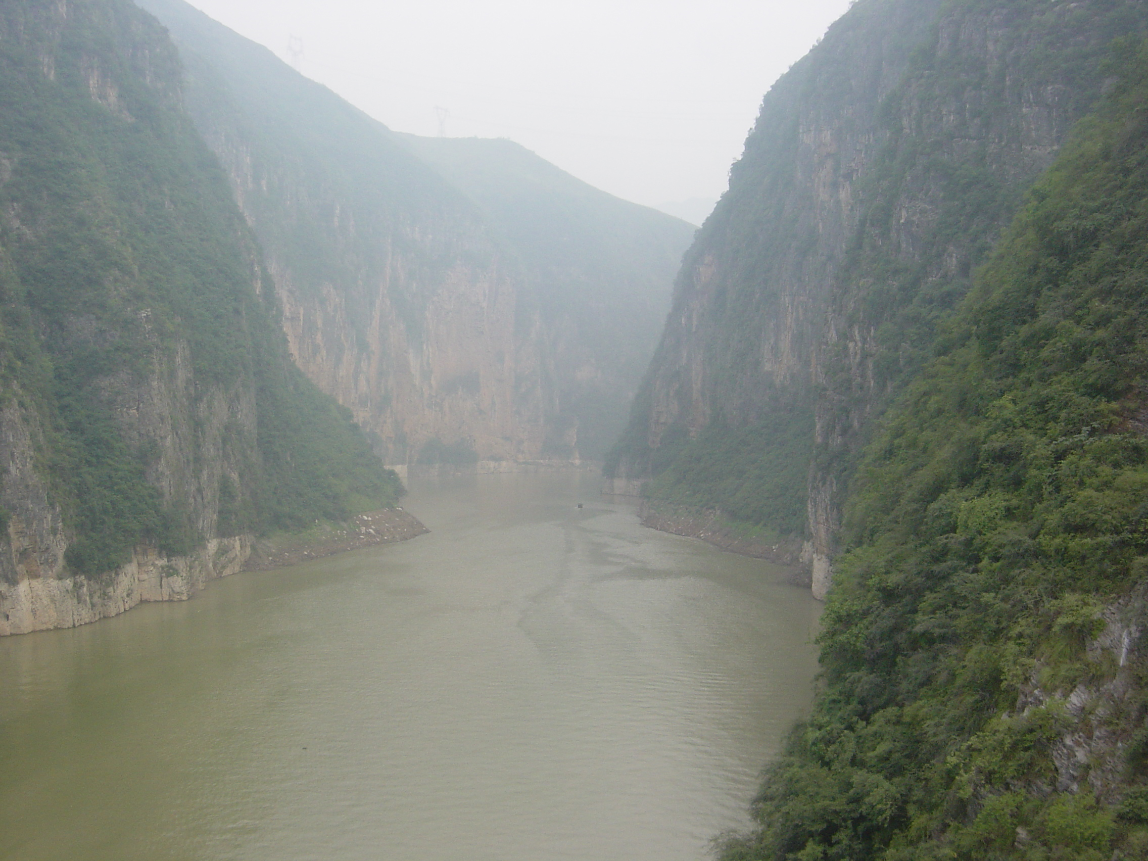 The Little Three Gorges along Daning river in Wushan,Chongqing.This photo has been taken by Mr.Chen Hualin.